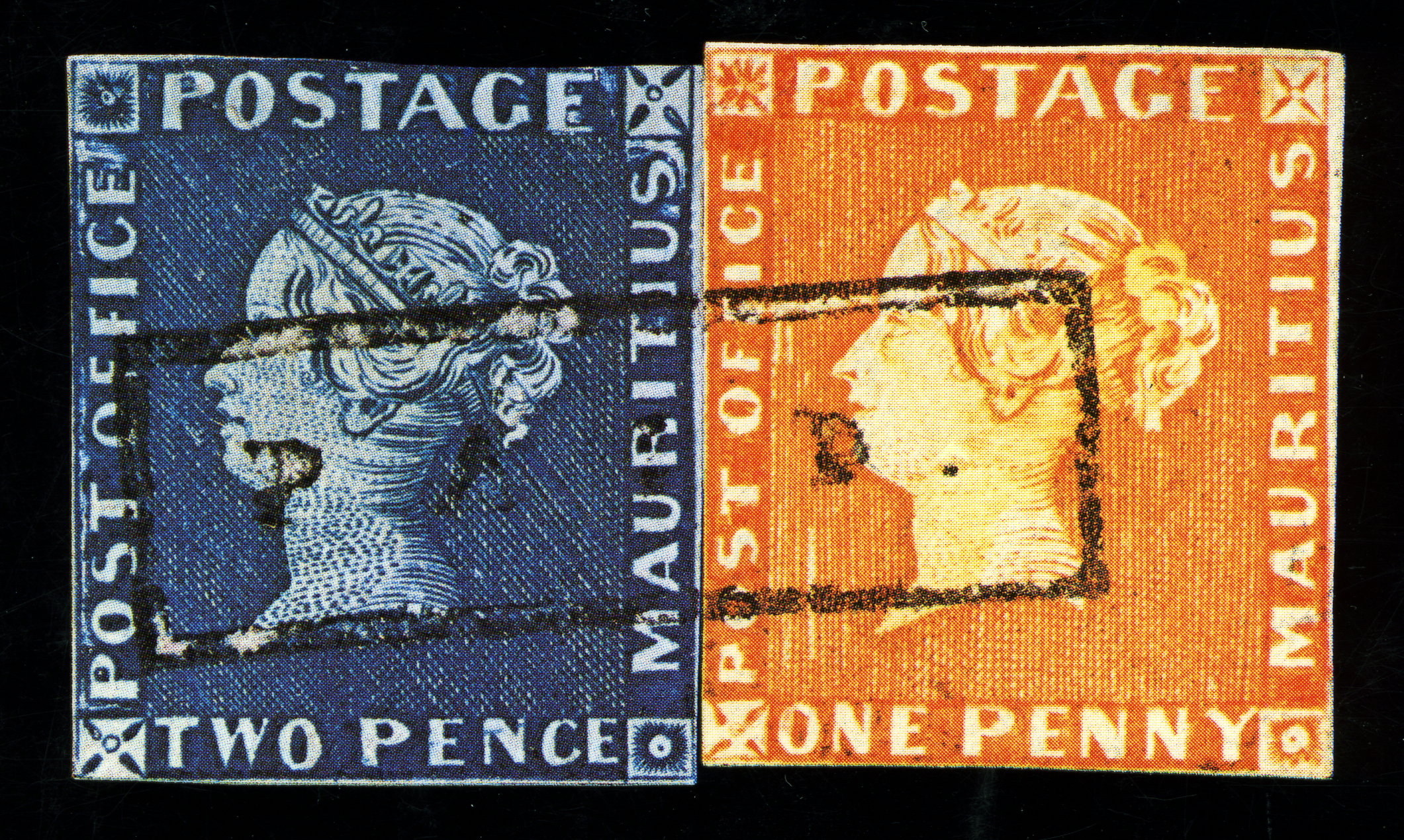 Mauritius both POST OFFICE together (Moens No. I and II) at the Jakubek 1985 Auction